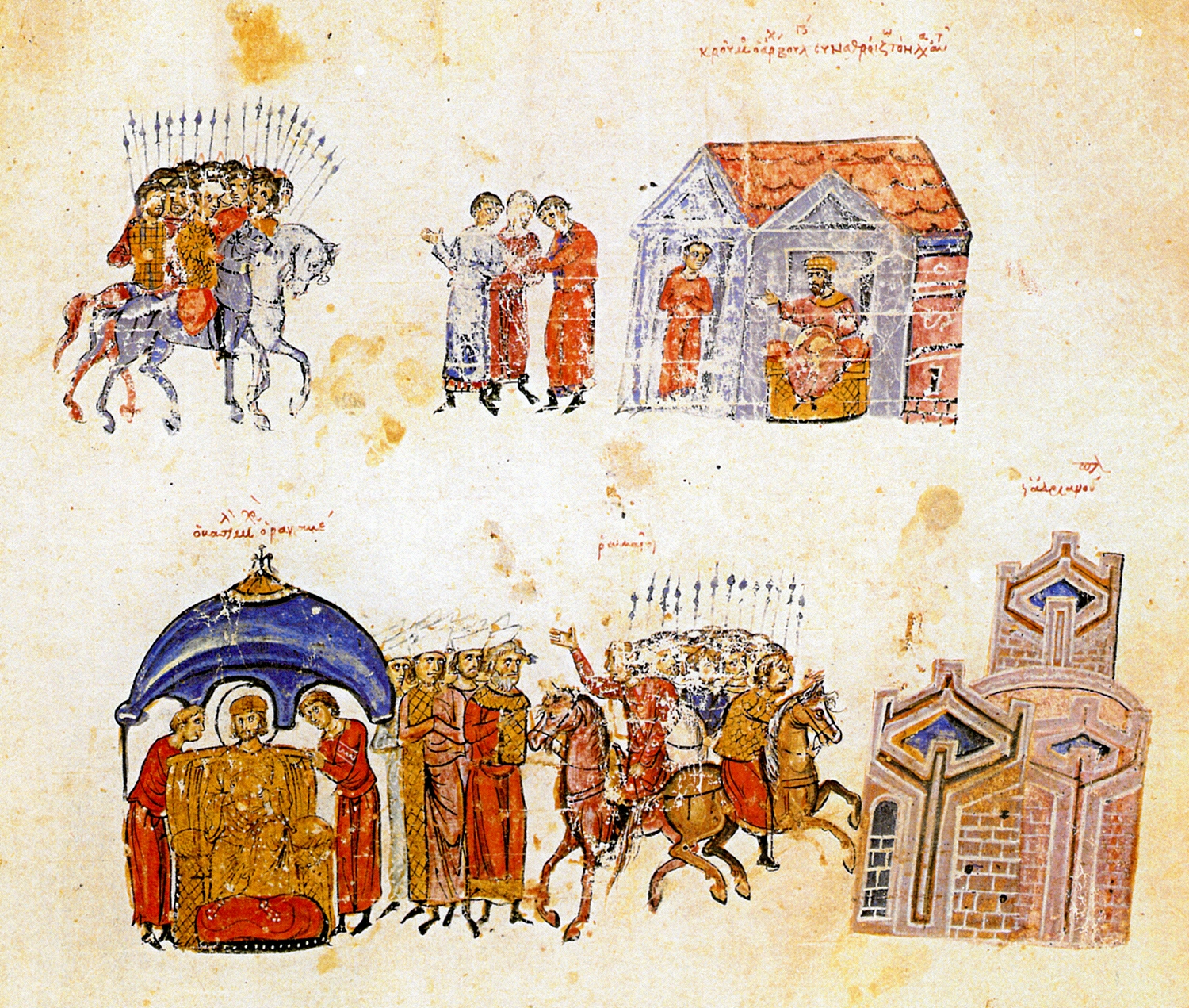 The armies of Krum (top) and Michael I Rangabe (bottom) before the Battle of Versinikia (813), Madrid Skylitzes, fol. 11r, detail